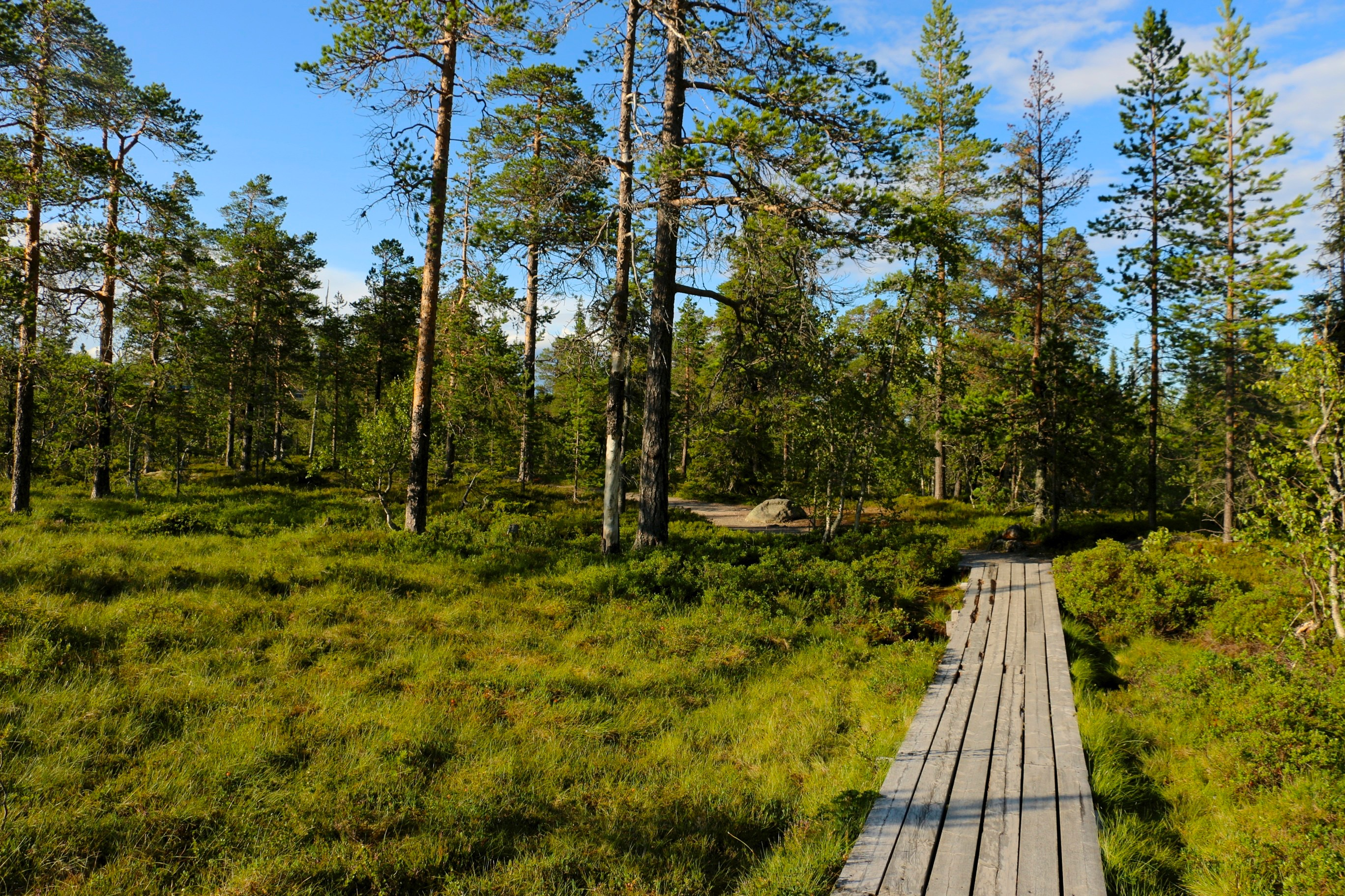 Start of the path from the naturum in Fulufjället national park